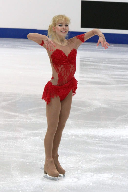 Viktória Pavuk at the 2011 European Figure Skating Championships